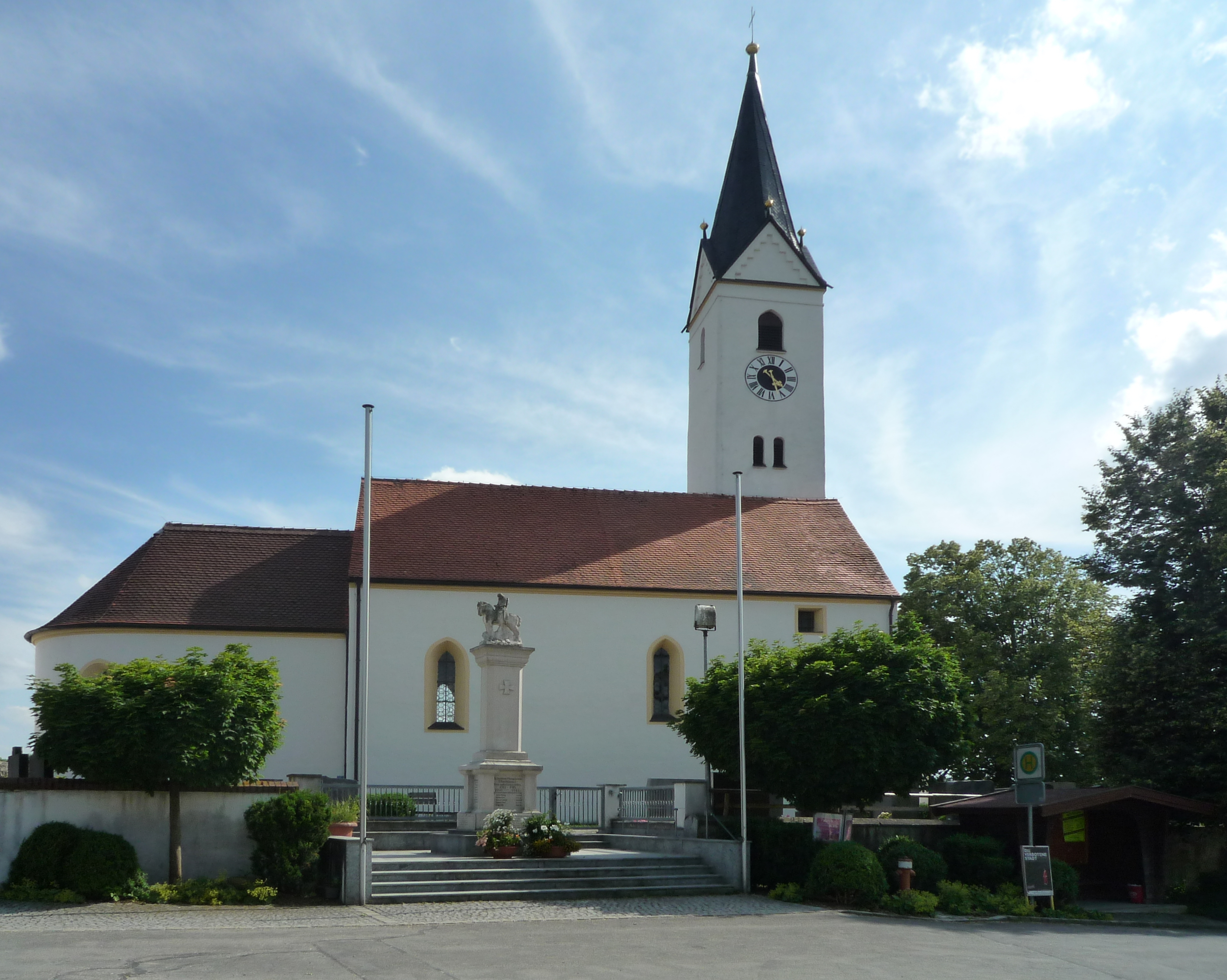 Church in Oberhummel, part of Langenbach, Bavaria, Germany